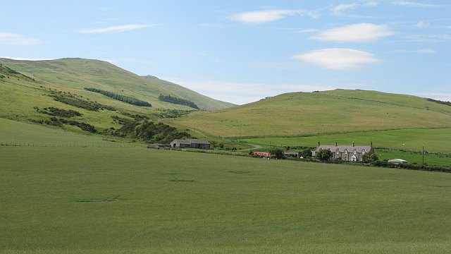 Old Yeavering Row of farm cottages, now cleverly extended beneath Newton Tors.